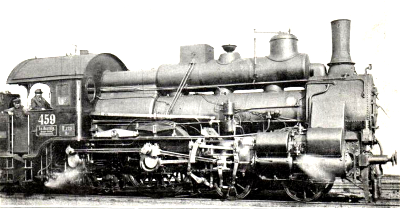 MÁV 459 (later MÁV 222.459 ) Nr. steamlocomotive.